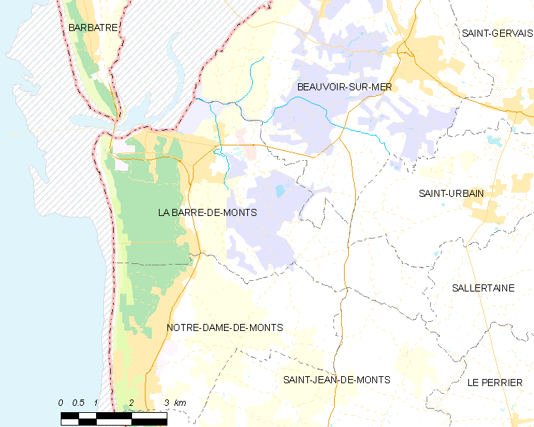 Map of French municipality La Barre-de-Monts